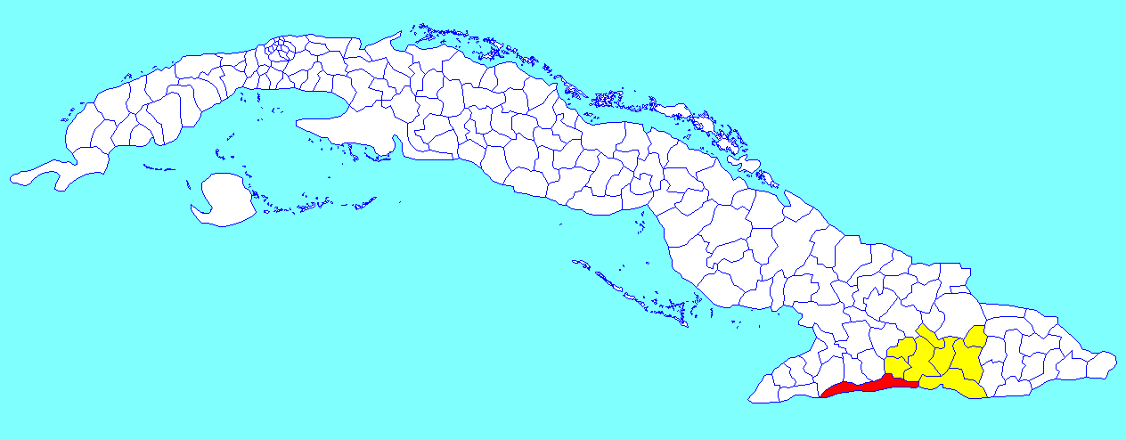 Locator map of the Municipality of Guamá (shown in red) — within the Province of Santiago de Cuba (yellow), in southeastern Cuba.